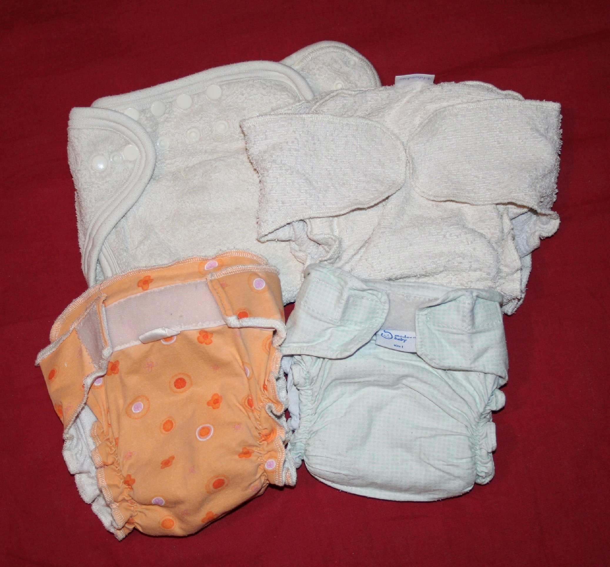 Different kinds of inner cloth diapers. Baby diapers.